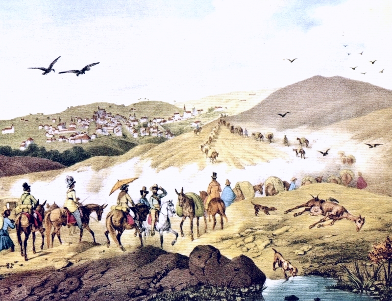 Voyagers to Tijuca in Rio de Janeiro following a merchant´s caravan of donkeys.